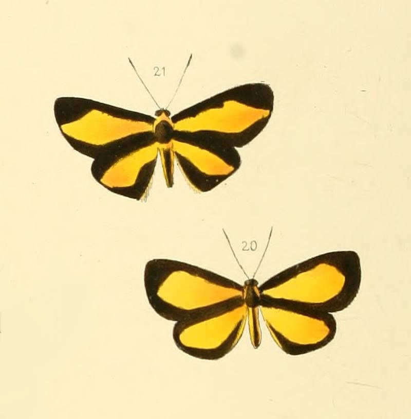 Limnas bryaxis. Figs. 20, 21. Accepted as Mesenopsis bryaxis (Hewitson, 1870).